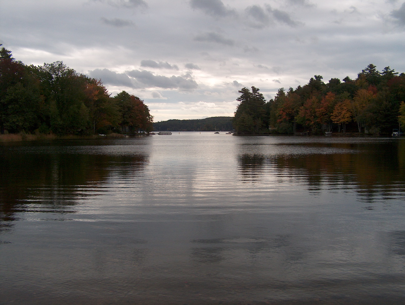 Lovell Lake in Sanbornville, New Hampshire. Photo by Ken Gallager, Oct. 3, 2008.